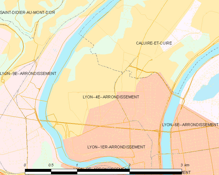 Map of French municipality